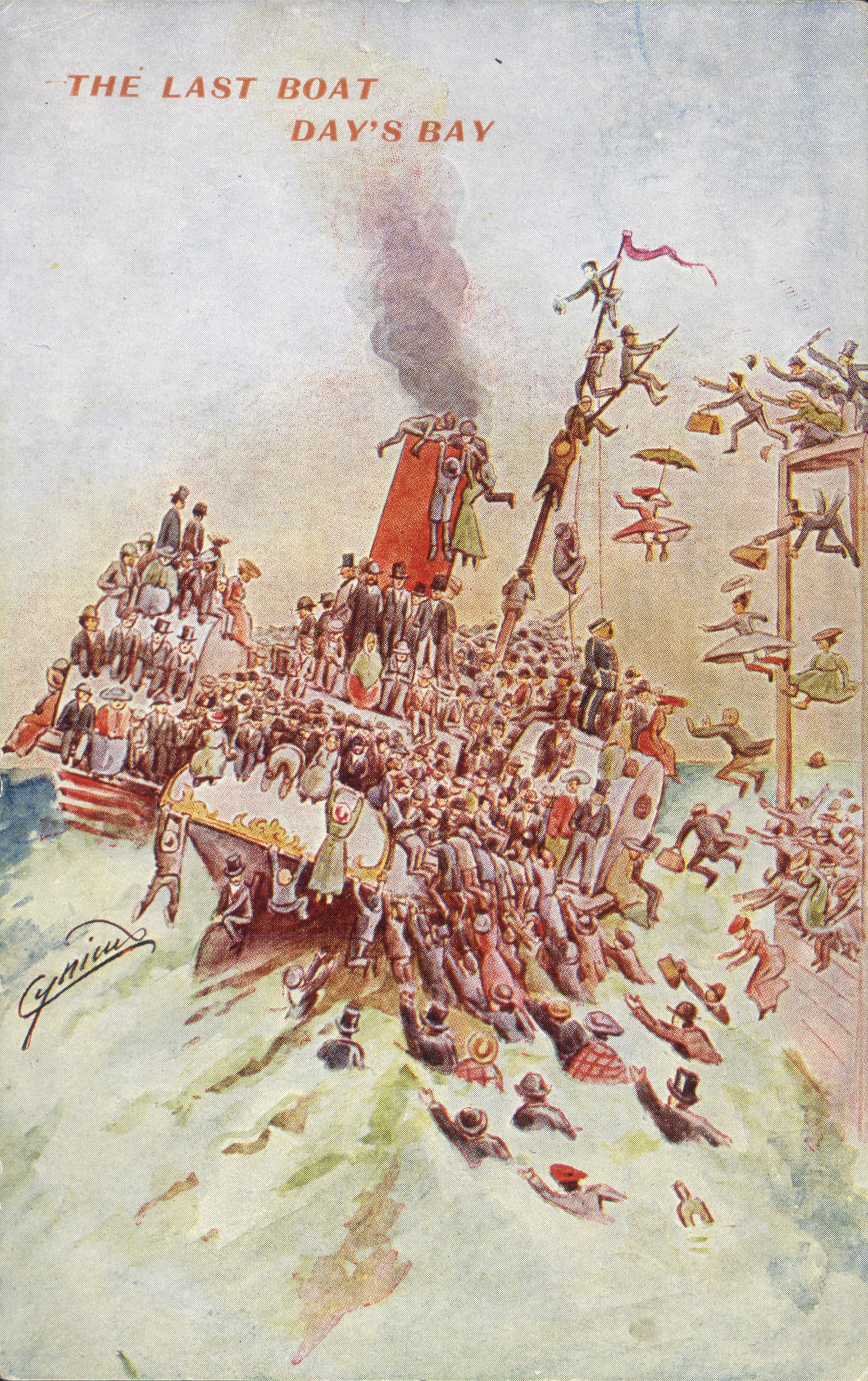 Shows crowds swarming on to all surfaces of a paddle steamer, and even jumping off the wharf to reach it. Inscriptions: Inscribed - Recto - bottom right: "Cynicus". Quantity: 1 colour photo-mechanical print(s) on postcard.. Physical Description: Photolithograph, 140 x 90 mm. Provenance: Donated by Mrs Ellis.Printed in England. Anderson, Martin, 1854-1932. "Cynicus" :The last boat, Day's Bay. [Postcard. ca 1910].. Ref: Eph-POSTCARD-Ellis-02. Alexander Turnbull Library, Wellington, New Zealand.